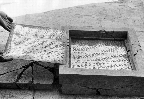 corner of the Apadana Darius the Great inscription.